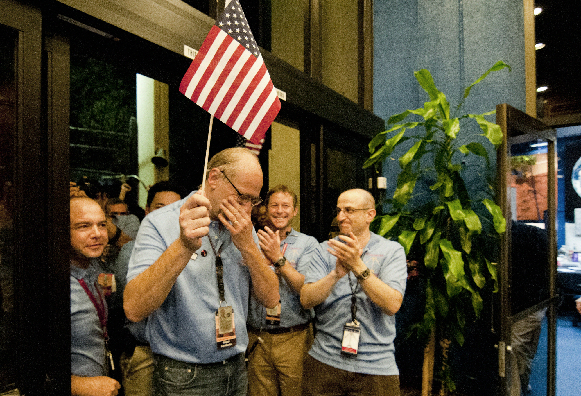 Miguel San Martin, Chief Engineer for Guidance, Navigation and Control for the Curiosity rover, pauses to hold back tears as he leads the Entry, Descent and Landing team into the post-landing news briefing.